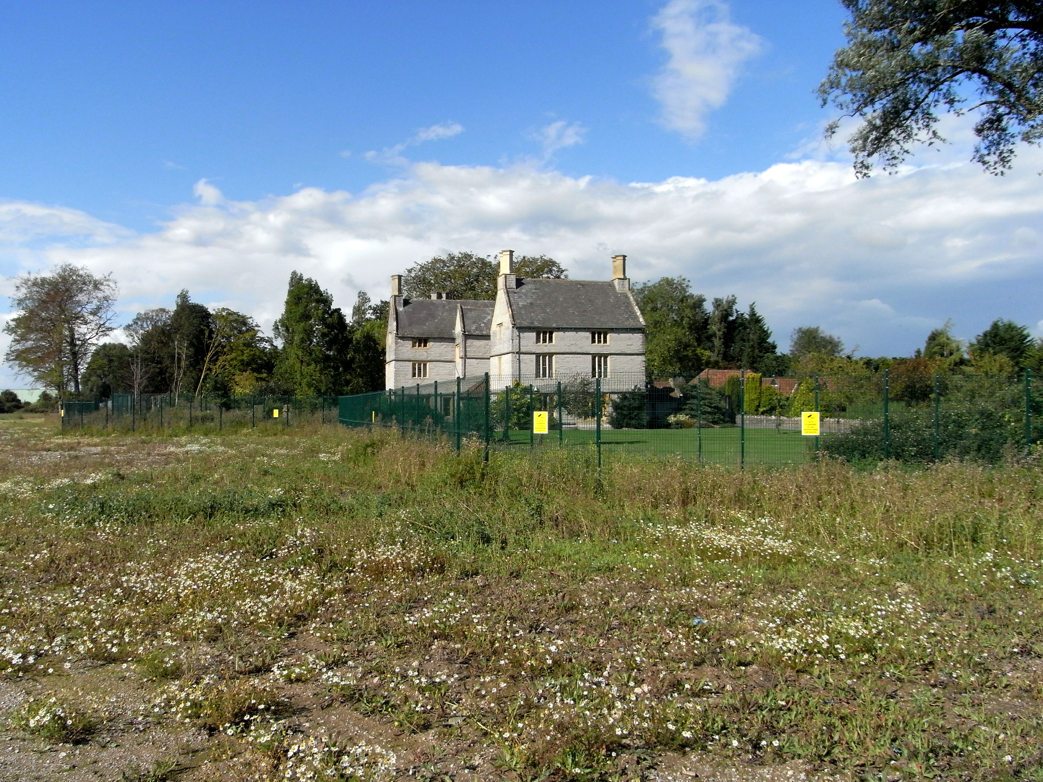 Sydenham Manor House, near Bridgwater, Somerset. Origin of de Sydenham family, later of Combe Sydenham; Orchard Sydenham; Combe, Dulverton; Brympton D'Evercy (Sydenham baronets); all in Somerset. In 2015 owned by Hinckley Point Nuclear Power Plant, which purchased the house with a large flat plot of land formerly occupied by factories, intended for construction of accommodation for workers on the proposed new nuclear power plant 12 miles away.